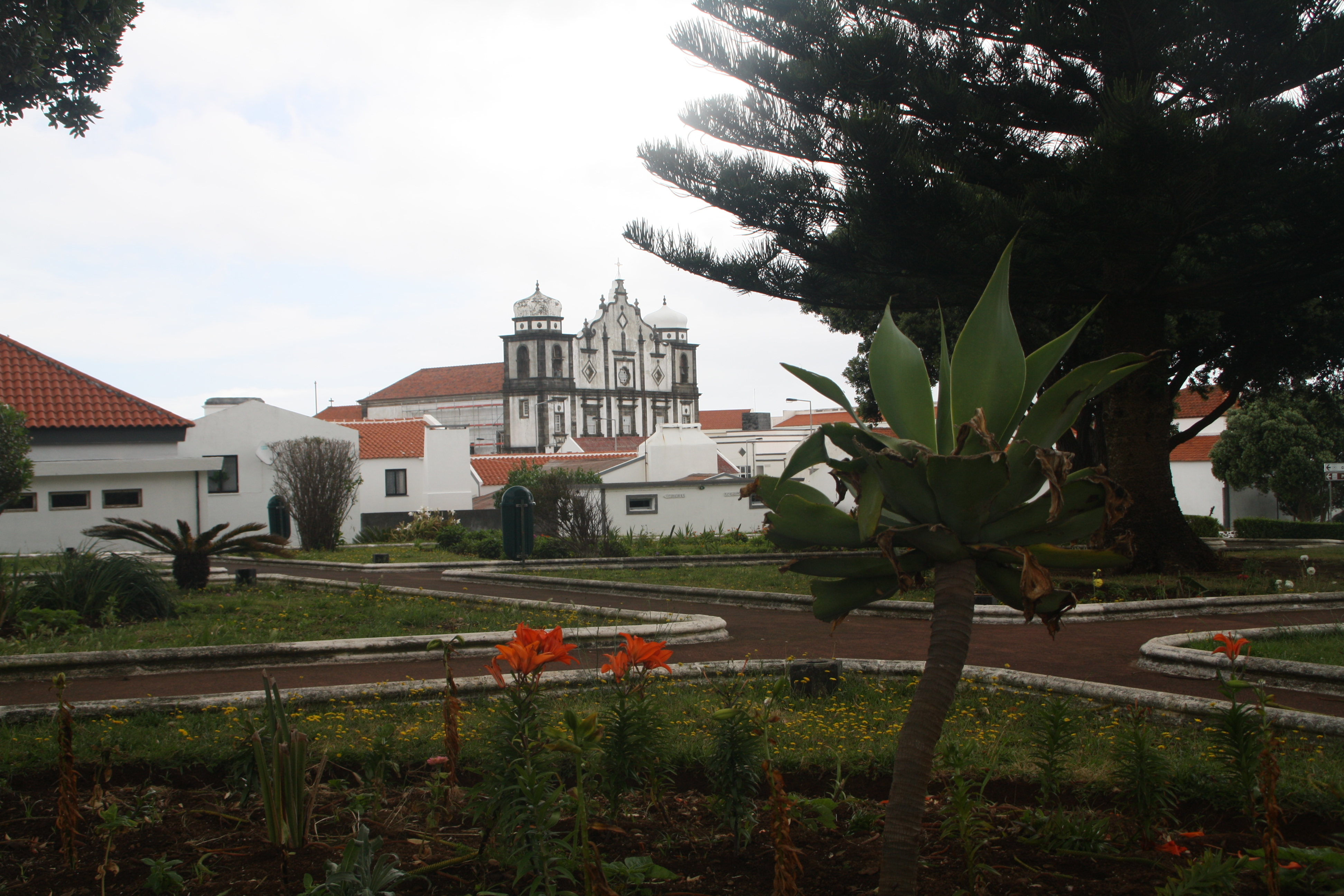 Azores, Flores, Santa Cruz das Flores, church Igreja Matriz da Nossa Senhora da Conceição